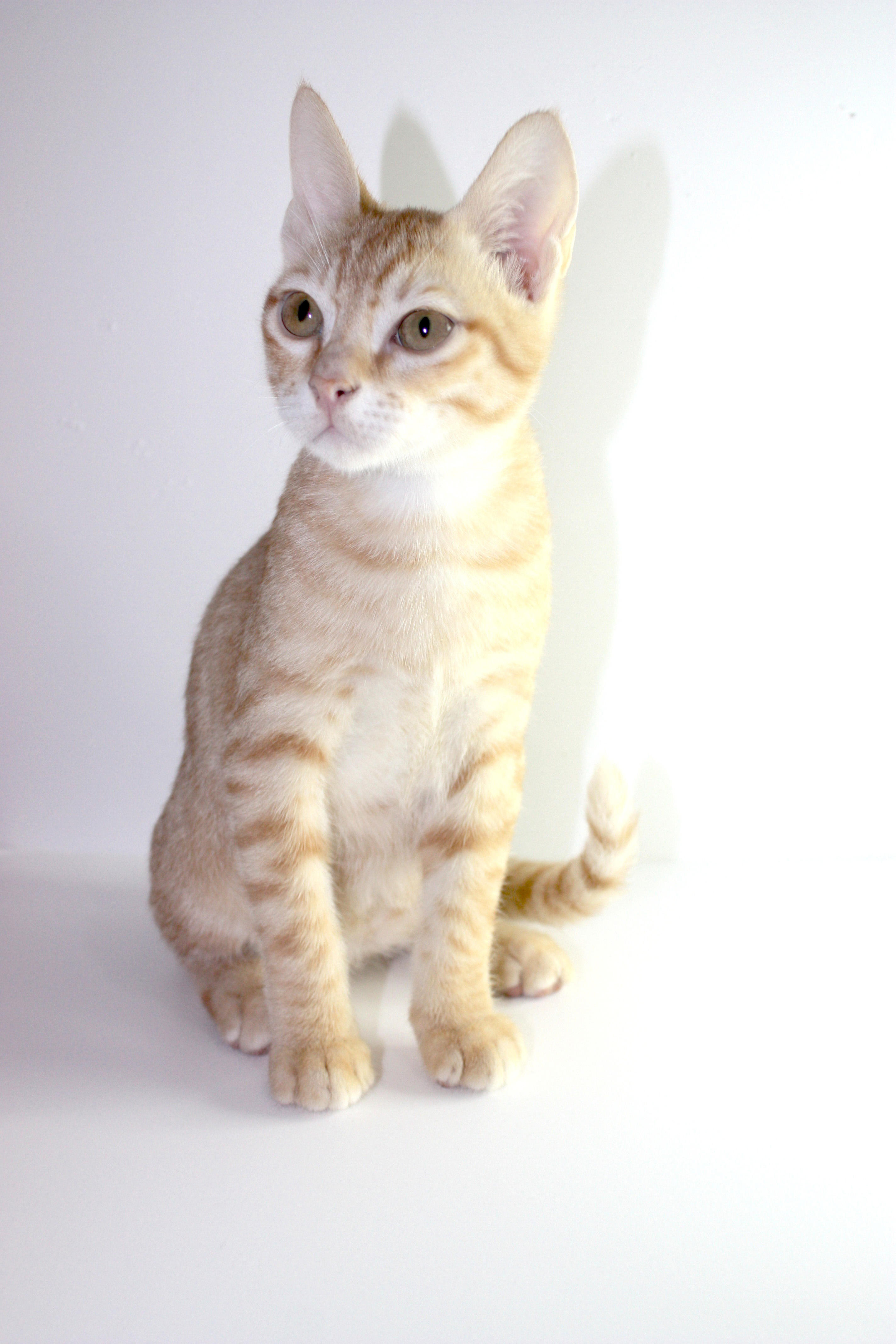 Arabian Mau kitten 3 months old. Ginger Tabby